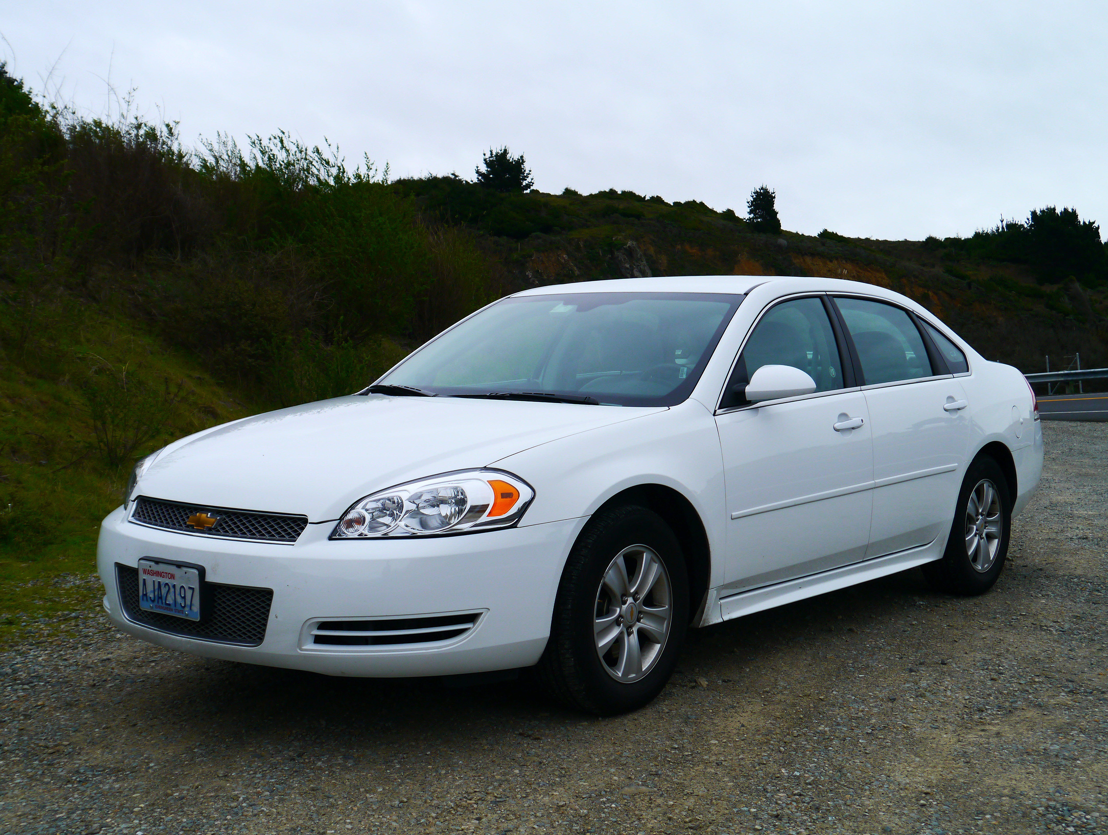 2013 Chevrolet Impala LS. My ride for that week: after a few miles driving it, I still felt like an undercover cop / FBI agent. It is not an ugly car but there is nothing pretty about it either. Bland design not to alienate any potential customers? Renault has tried this formula for the last decade and it did not work. They seem to have reverted to some more daring style though, adding a bit more character to the front-ends. 3.6 L V6 engine (225 kW; 302 bhp).